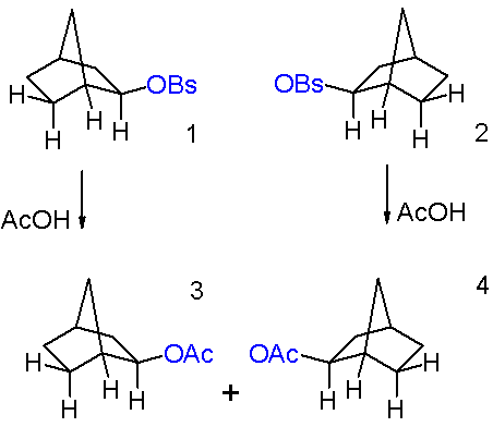 Norbornyl racemization